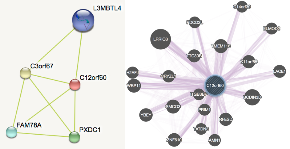 Protein Interactions of c12orf60 from STRING and GeneMANIA Search. All hits from STRING (left) were from text-mining, and all hits from GeneMANIA (right) were from co-expression.